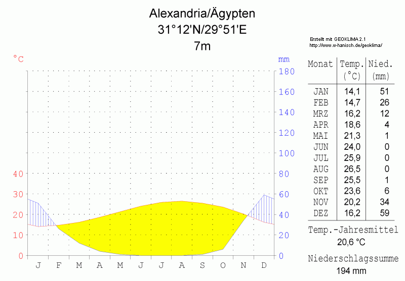 climate chart in the format by Walther and Lieth Alexandria